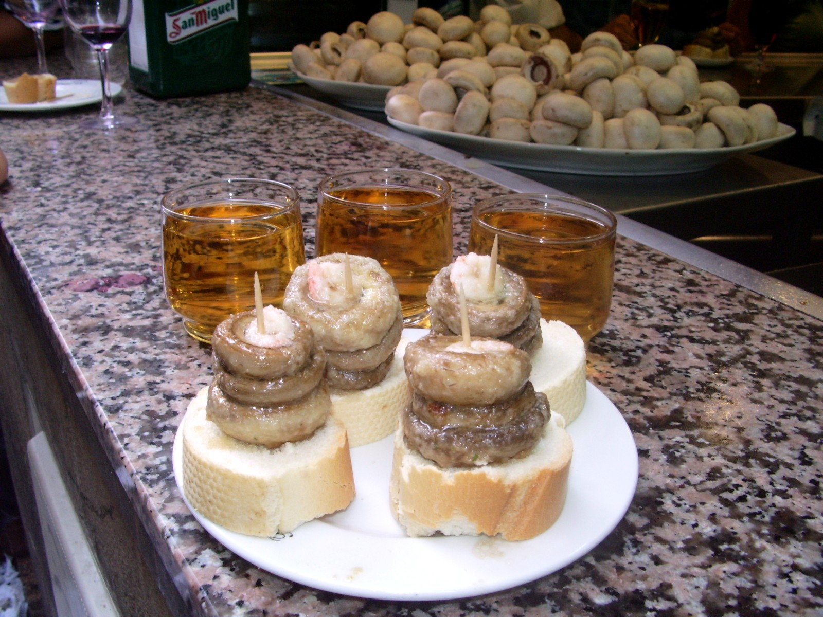 Typical "tapas" (mushrooms) served in a bar (Bar Ángel) on Laurel Street in Logroño.